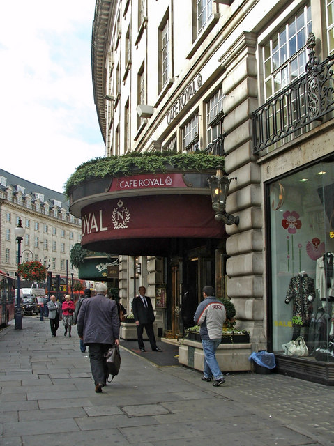 Cafe Royal, Regent Street, London W1 (geograph_993751.jpg)